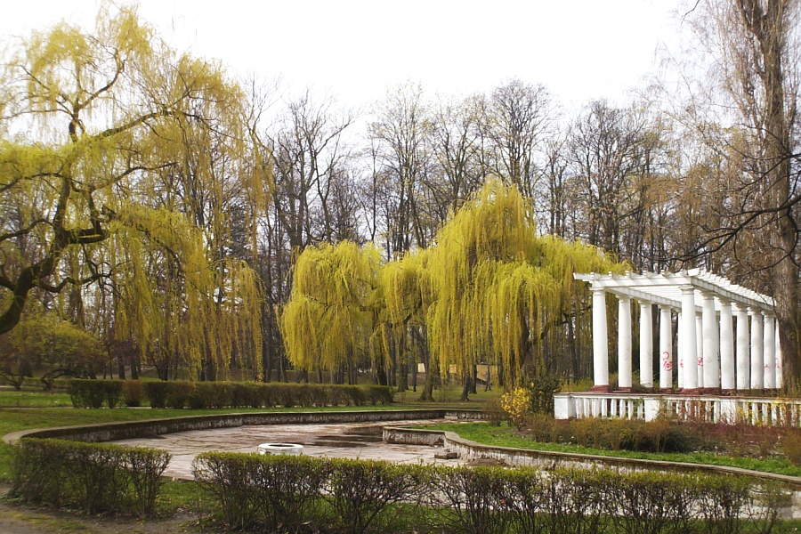 City Park in Legnica